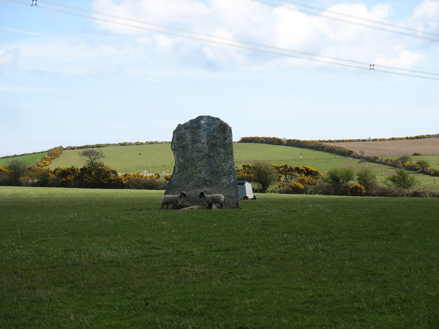 Standing stone east of Llanfechell This stone is probably of Bronze Age origin. It is one of a number of such standing stones in this part of N.W. Anglesey. The stone is 2.6m high, 1.5m wide and 0.25-0.3m thick.